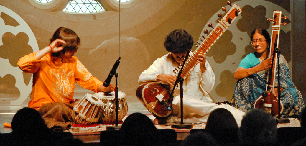 This is a derivative work of File:Raga du soir au Collège des Bernardins (4730079050).jpg